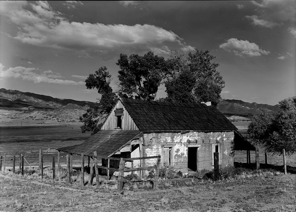 Title: Warner's Ranch — East elevation of Ranch House. Located on San Felipe Road—State Highway S2, Warner Springs vicinity, San Diego County, CA. 1960 image: HABS—Historic American Buildings Survey of California, by Jack Boucher. Significance Building/structure dates: 1845 initial construction; 1858 subsequent work. The Warner Ranch is a Registered National Historic Landmark and California Historical Landmark #311. It was the focal point for emigrants traveling over the Santa Fe Trail to the California settlements and gold fields from 1844; and it served as a way-station for Butterfield's Overland Mail Company from September 16, 1858, until April, 1861. It was the first well supplied trading post reached by emigrants after the long trek across the southwest deserts. It figures prominently in events incident with the arrival of the Army of the West under command of General Stephen Watts Kearny during the United States war with Mexico and the Battle of San Pasqual which was the sharpest engagement in the conquest of California. During the Civil War, Camp Wright was established on the ranch for the final staging of the California Volunteer Battalion under Colonel James H. Carleton. The buildings, extant, are of adobe brick and hand-hewn timbers put together by mortise and tenon and wood pegs, typical of the early west.